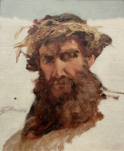 Head of a peasant in a circlet (study by Grigoriy Myasoyedov for the painting "Busy Time for the Mowers", 1887)